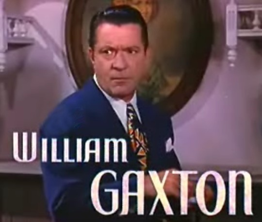 Cropped screenshot of William Gaxton from the trailer for the film Best Foot Forward